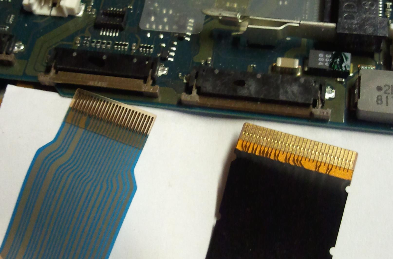 This is a picture of a pair of zero insertion-force connectors on a laptop mainboard, as well as the flat flex cables that connect to them.